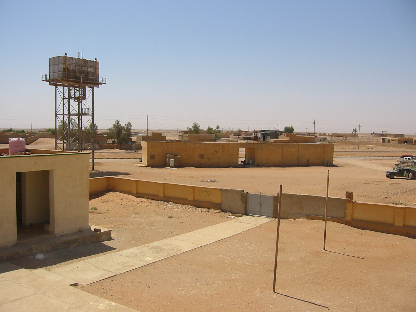 View of the town of An Nukhayb, Al Anbar, Iraq. Taken from the roof of the elementary school.